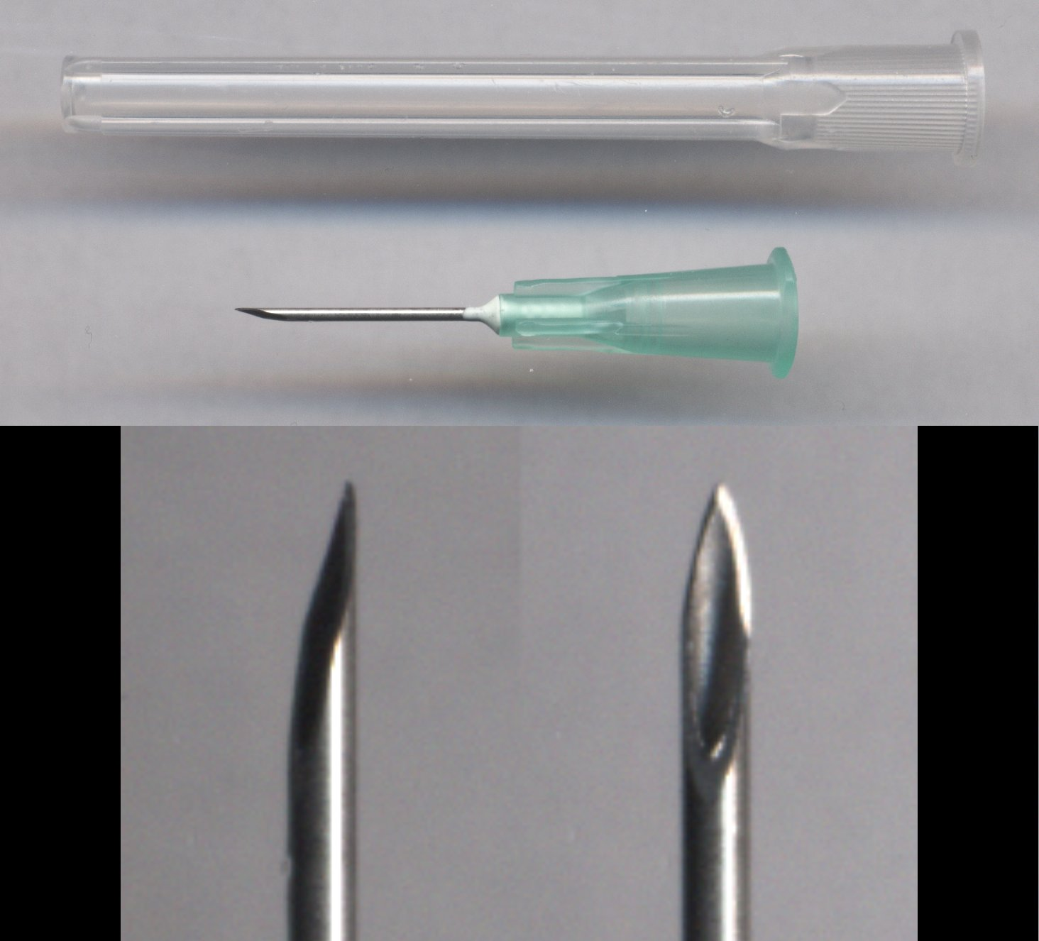 21 gauge disposable hypodermic needle with luer fitting and needle cap. Also zoom in on the tip of the same needle from two different angels. By me. Image made in March 2006.